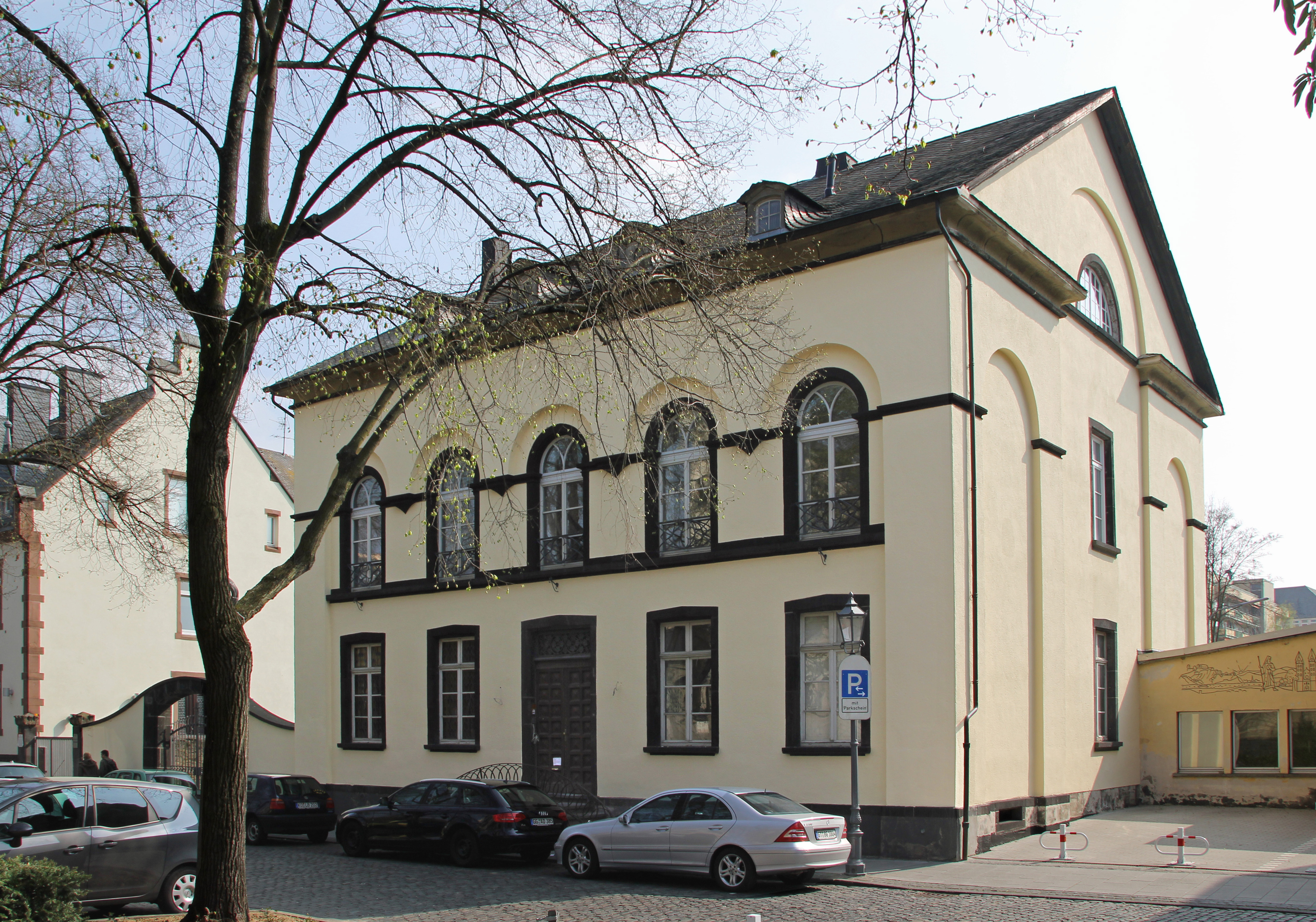 Pfarrhof of Basilica of St. Castor in Koblenz